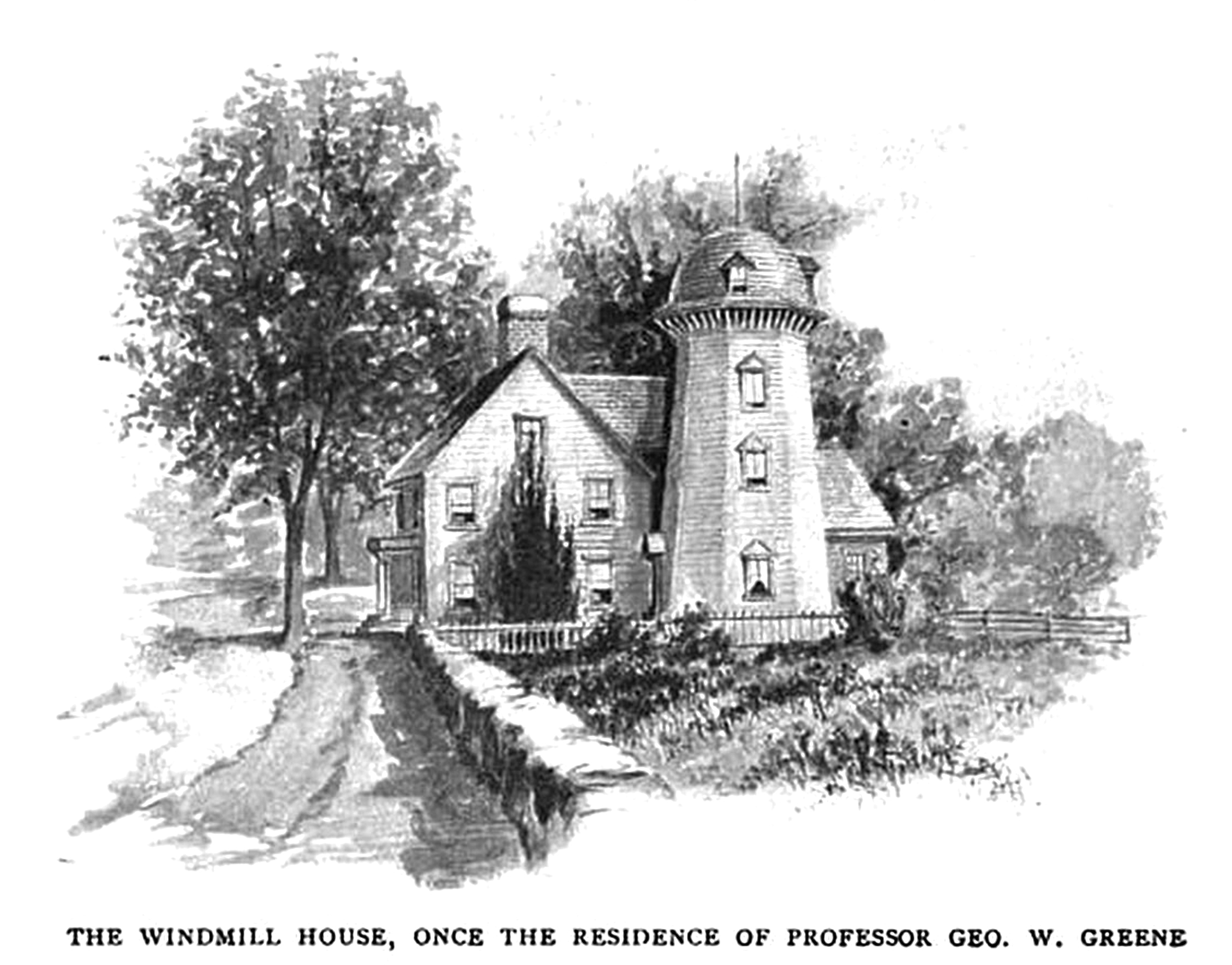 This is a copy of a photo from "Narragansett Bay" By Edgar Mayhew Bacon (New York: Putnam, 1904)